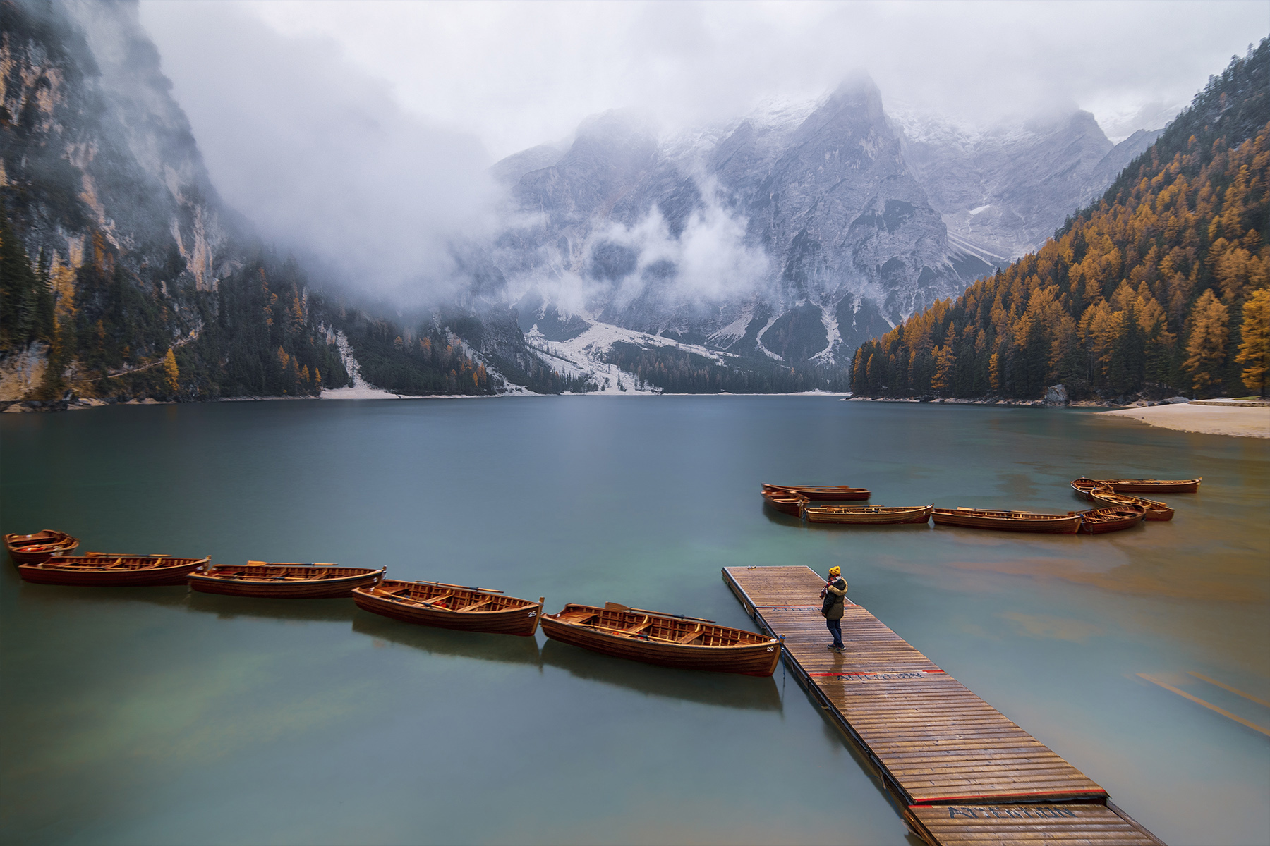 Lago di Braies , Italy